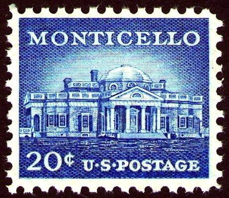 US postage stamp commemorating Monticello, Issue of 1956, 20c